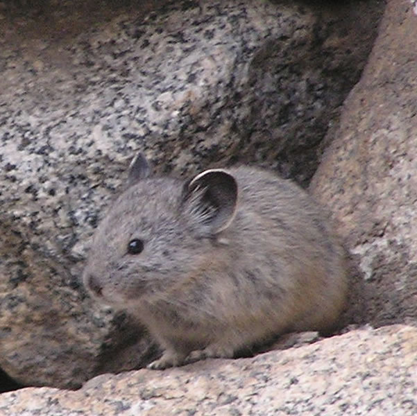 American Pika (Ochotona princeps schisticeps) in the Sierra Nevada Mountains, California, USA. Taken in talus in the Tokopah Valley of Sequoia National Park. Elevation is approximately 7,400 feet (2,300 m), around the low point of the pika's range.